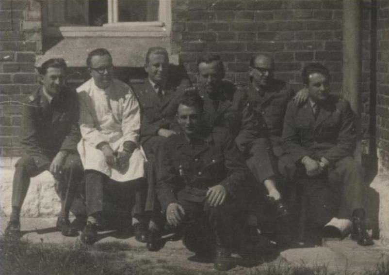 Personel Garnizonowej Izby Chorych, kierownik kpt.lek.med. Zygmunt Gwardys,1961